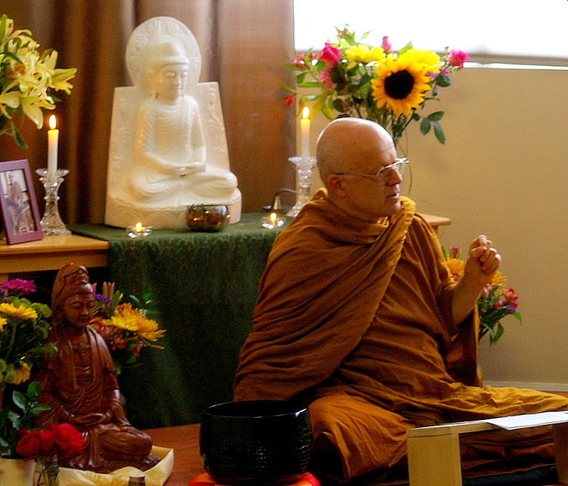 Buddhist Monk Ajaan Geoff giving a Dhamma Talk